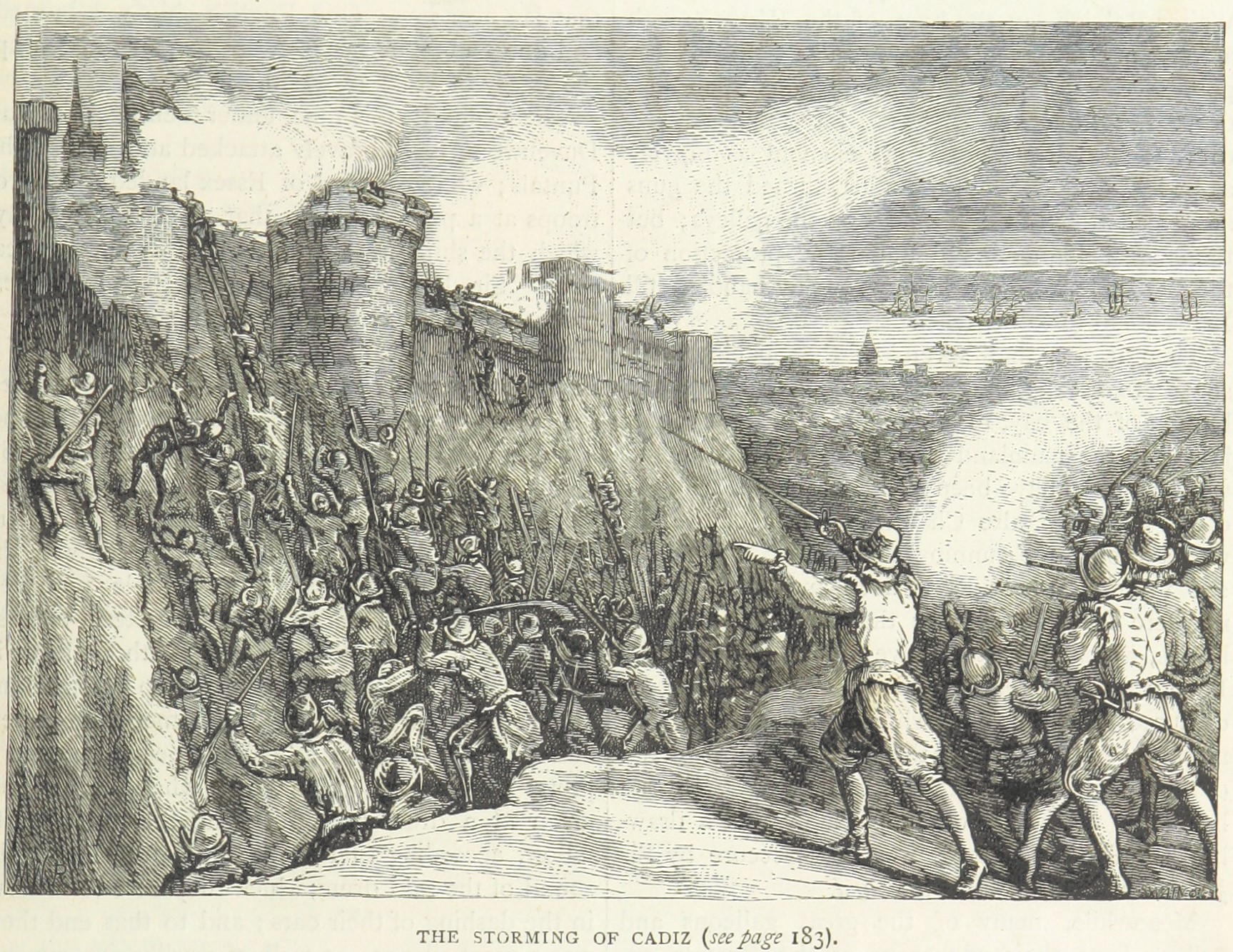 English troops storm the Spanish positions at the Capture of Cádiz.